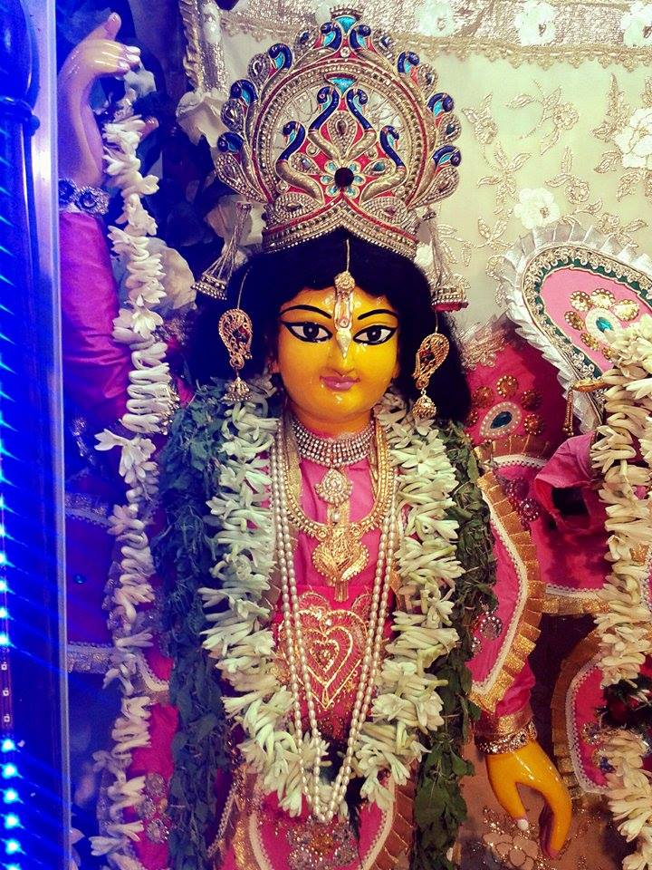 This is a beautiful idol of Lord Shri Gauranga Mahaprabhu at Shree Shree Guru Gouranga Radha Madhav Sevashrama